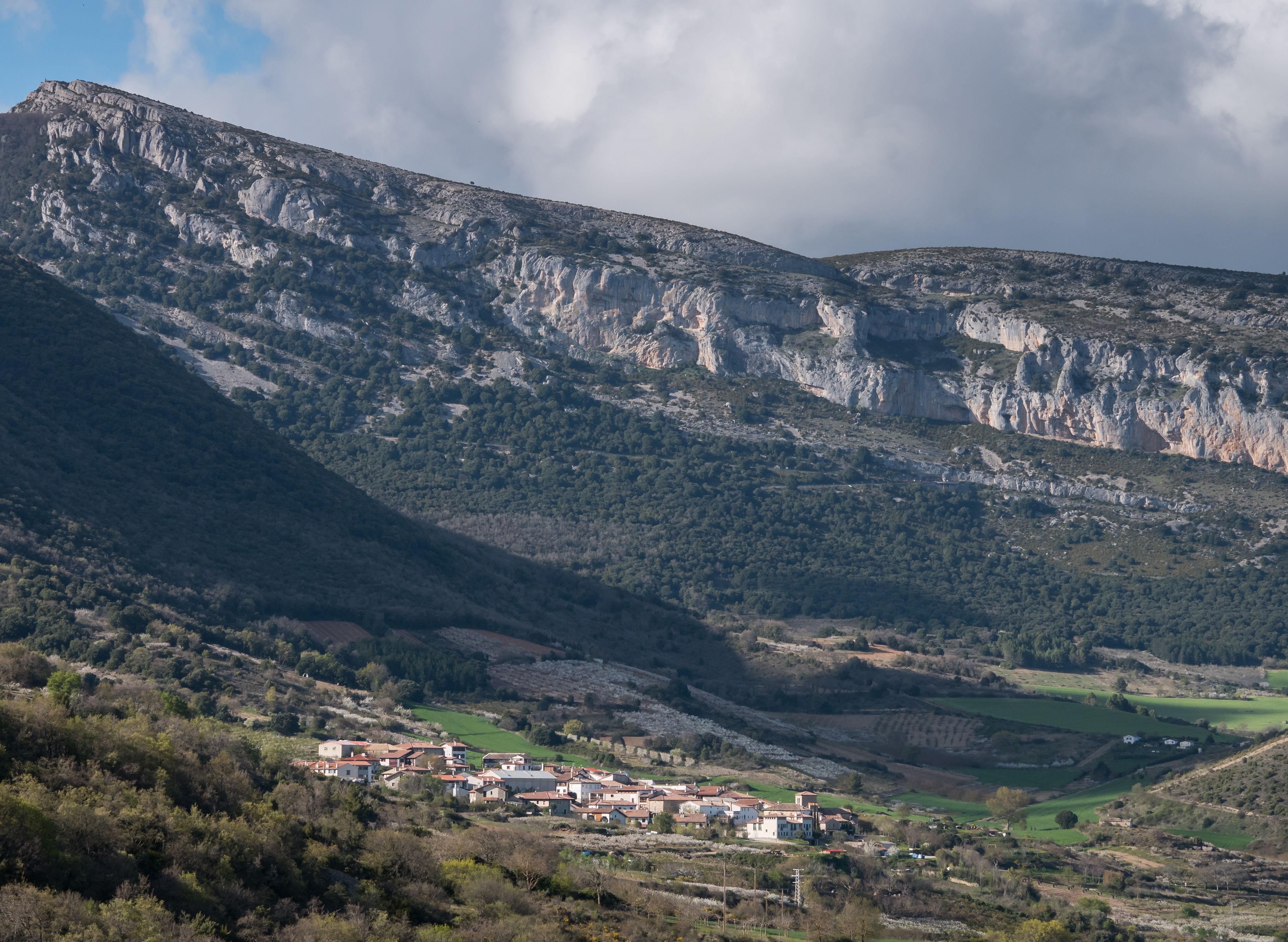 Bidaurreta, as seen from Belascoáin. In the back, the Sarbil mountain range and the summit of Alto de Etxauri. Navarre, Spain